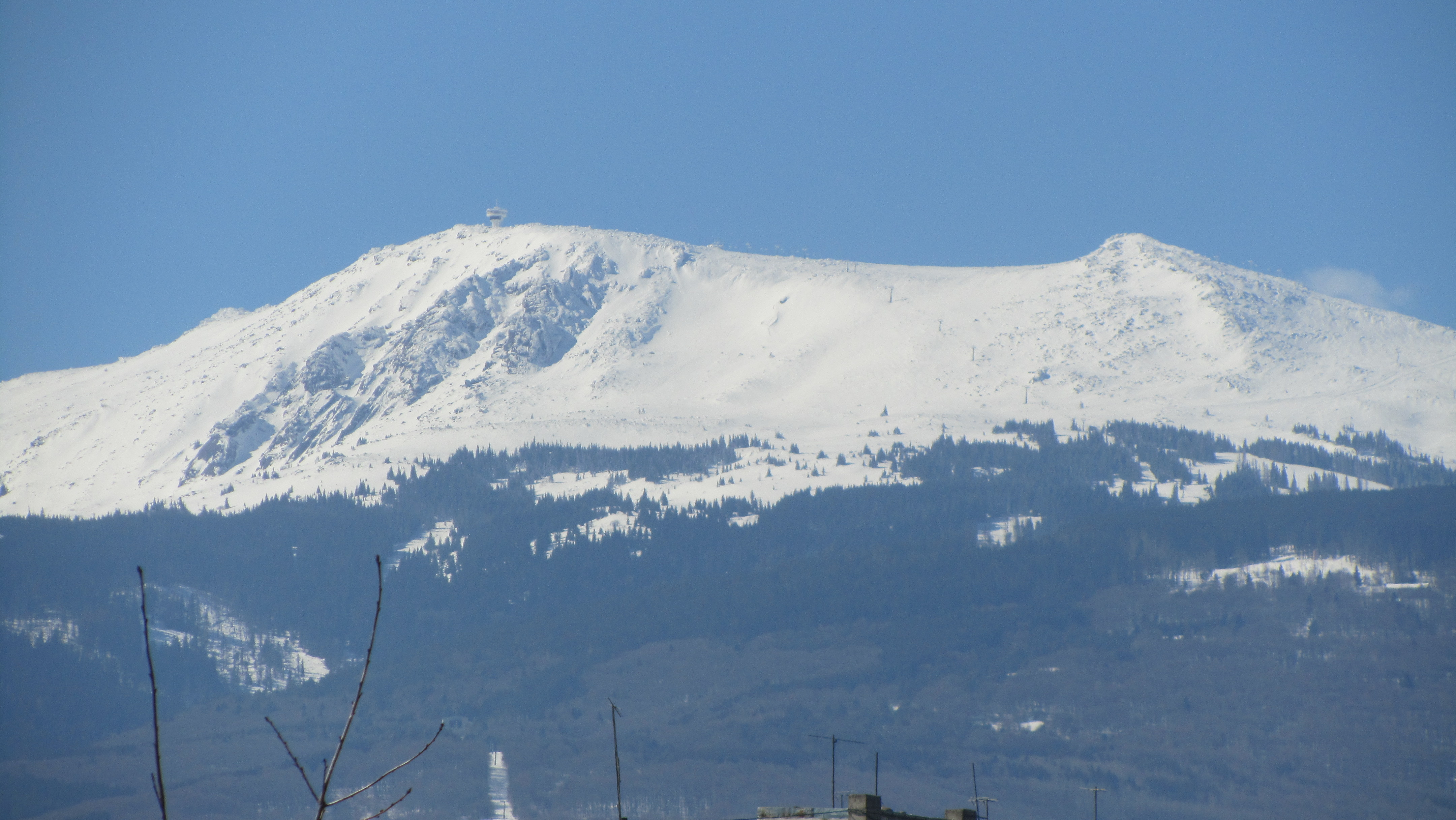 Great and Small Rezen Peaks, Vitosha mountain, Bulgaria